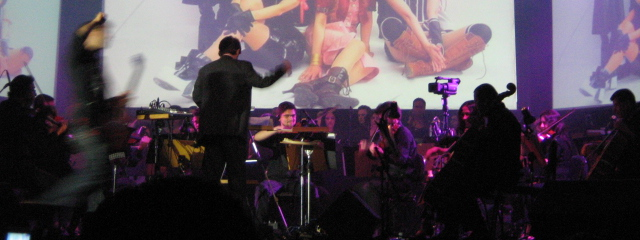 "One Winged Angel" from Final Fantasy VII